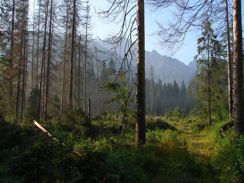 Javorová dolina Valley in High Tatras Mts.